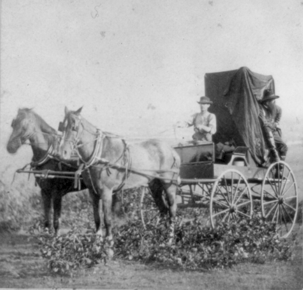 A photo of William Pywell taken by Alexander Gardner in 1867 (cropped)